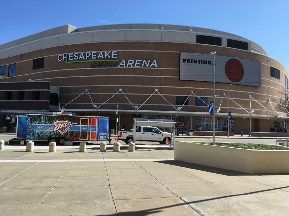 An outside image of Chesapeake Energy Arena hours before a game during the 2017-2018 NBA Season.